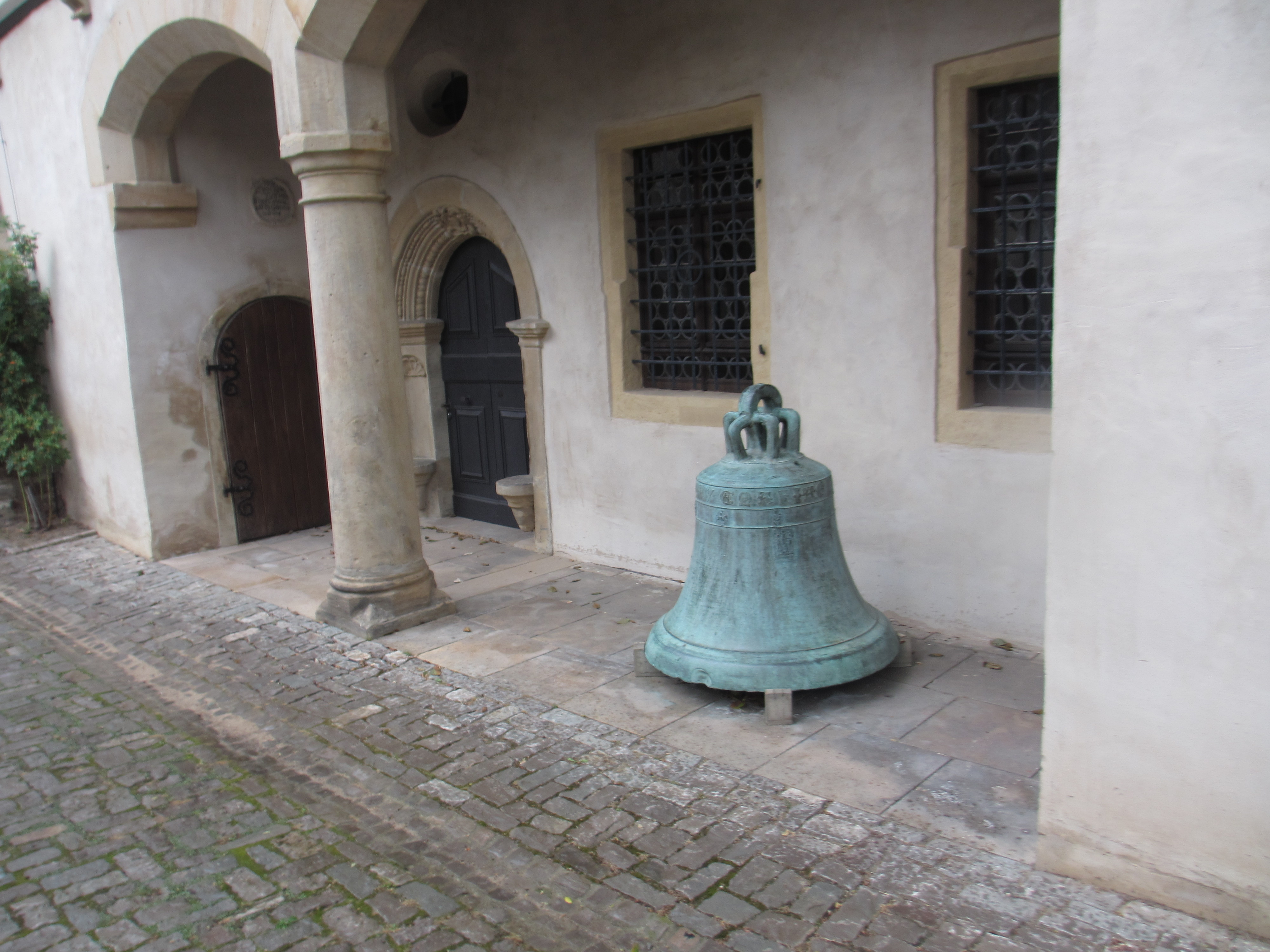 This is the building in which Martin Luther was born. Besides you can see a bell. This building is located in Eisleben, Germany.